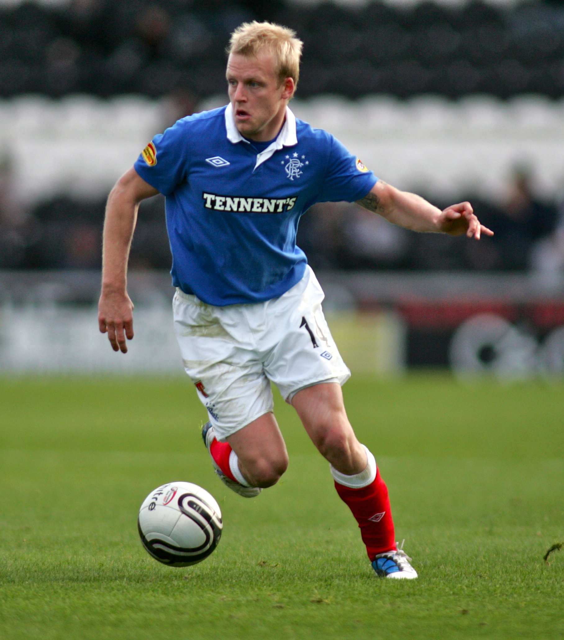 Rangers F.C. player Steven Naismith playing in a Scottish Premier League match against St. Mirren F.C. on 7 November 2010.